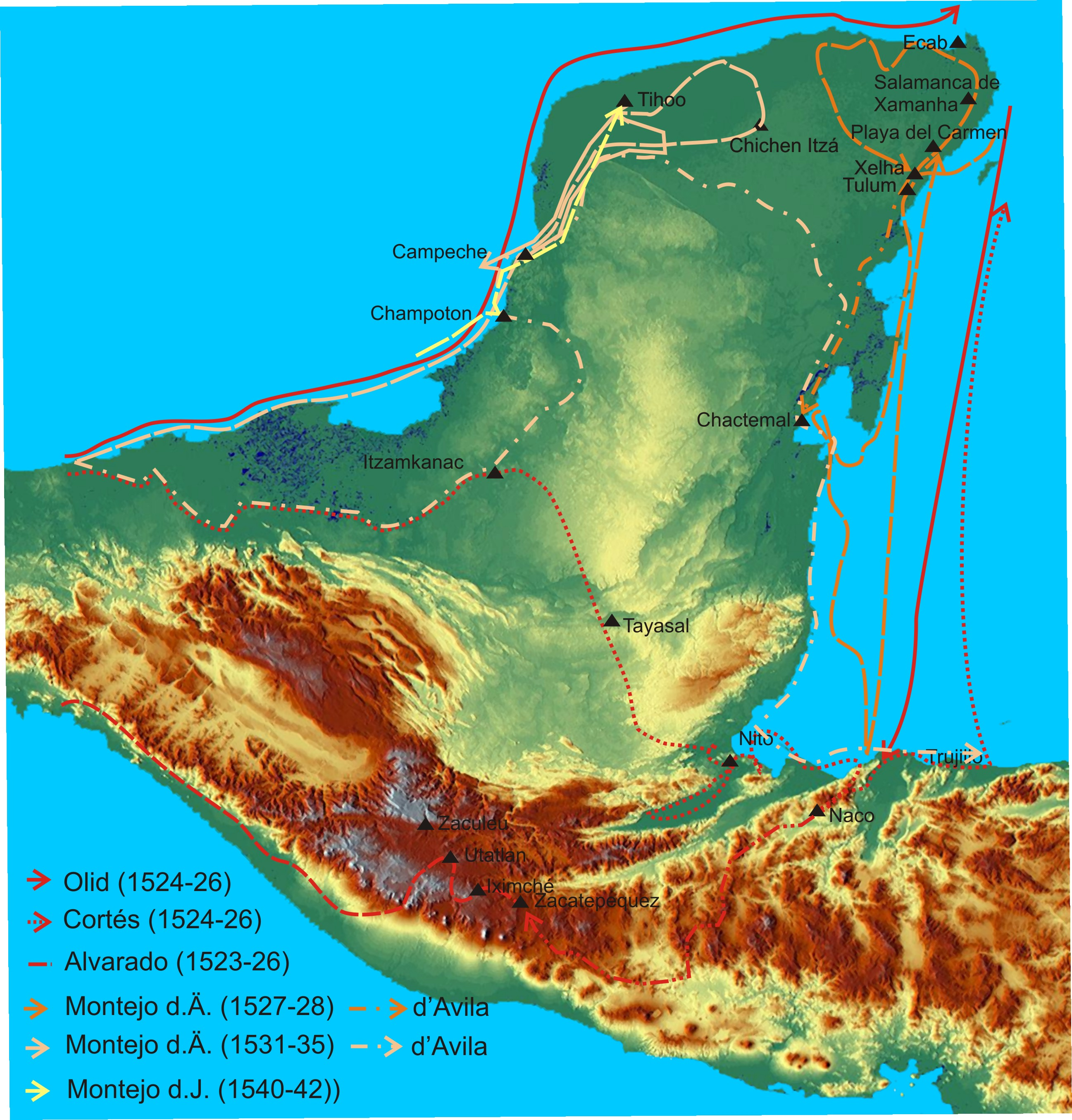 Map of Spanish exploration of the Yucatan Peninsula, and the 170 year Spanish conquest of Yucatán, from the early 16th century to late 17th-century. Located in present day Mexico and Central America. One conquest attempt was led by conquistador Francisco Hernández de Córdoba in 1517.